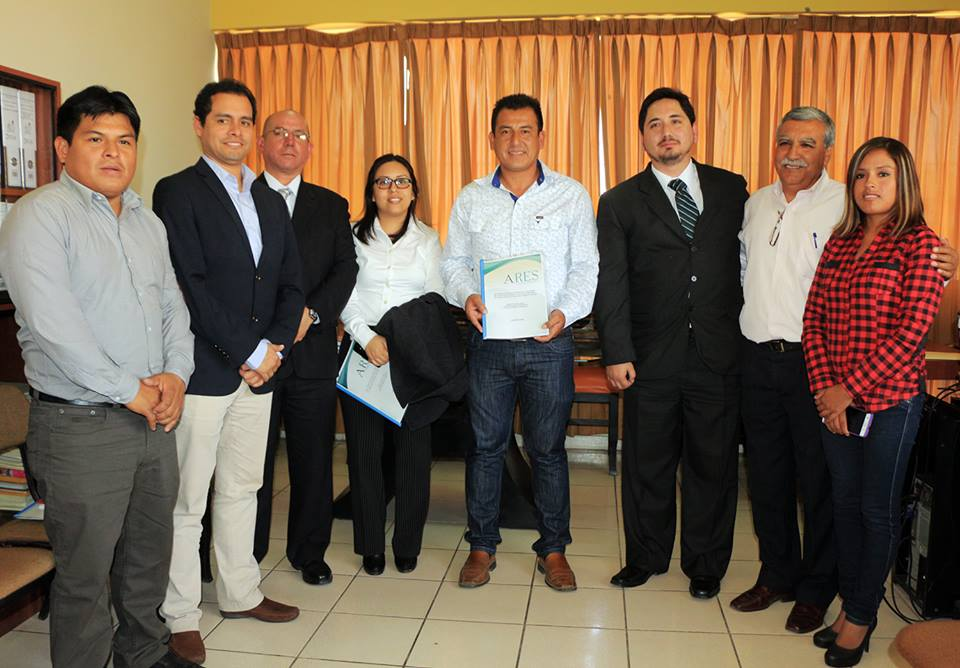 Signing of the Agreement for the recovery of Las Aldas between the Provincial Municipality of Casma and Ares Consulting & Management, 2016.